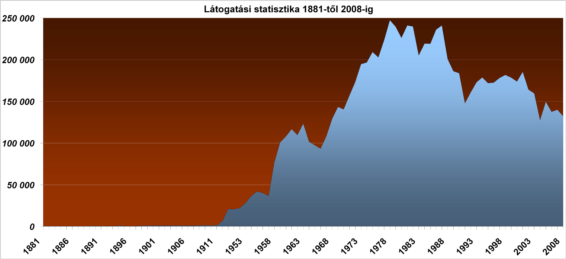 Visitor stats of Baradla Cave from 1881 to 2008